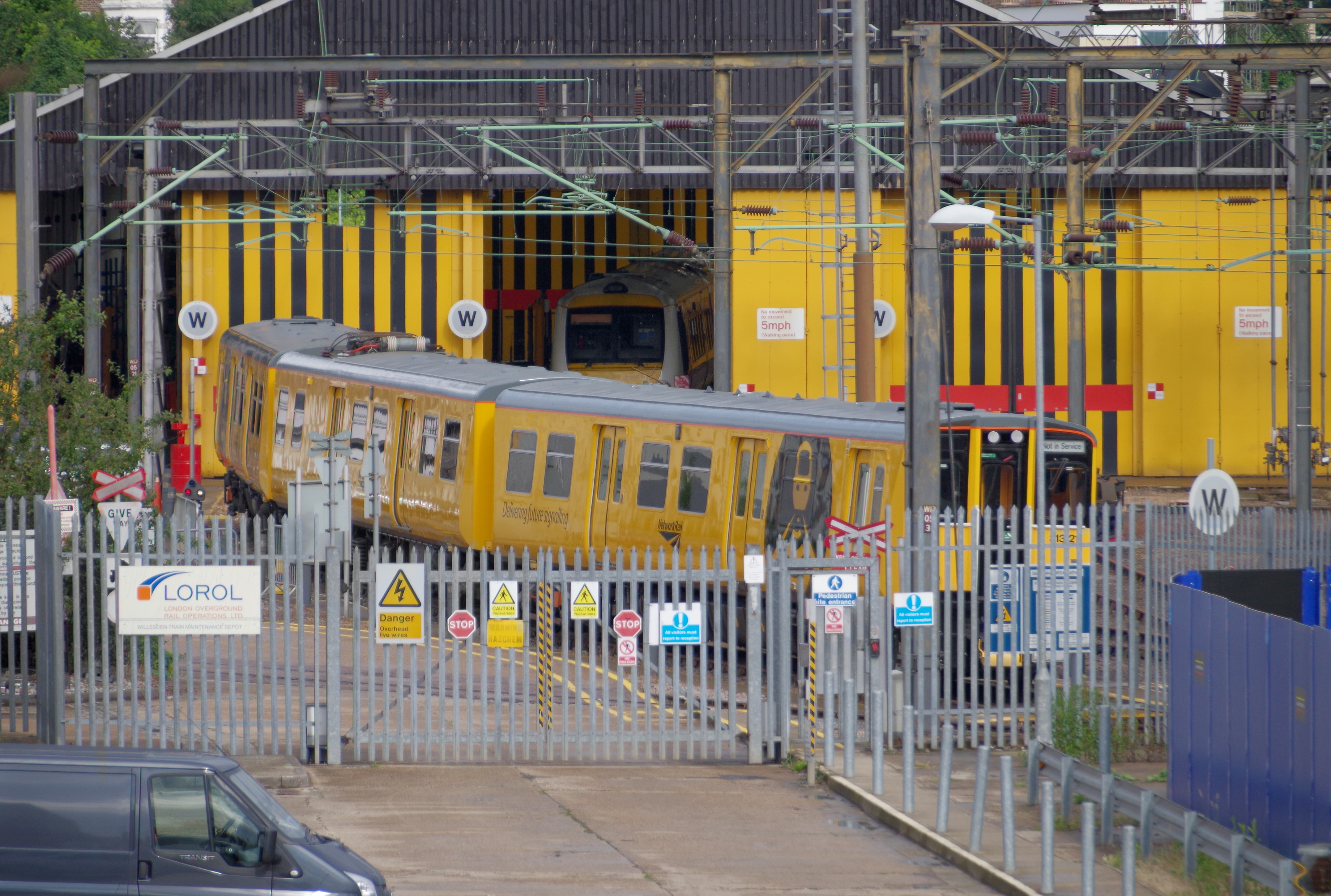 Looking down at Willesden TMD from the high level southbound platform at Willesden Junction station. Visible in the foreground is Network Rail class 313 EMU 313121, used as an ERTMS test unit. Chiltern Railways class 172 "Turbostar" DMU 172101 is visible in the shed.